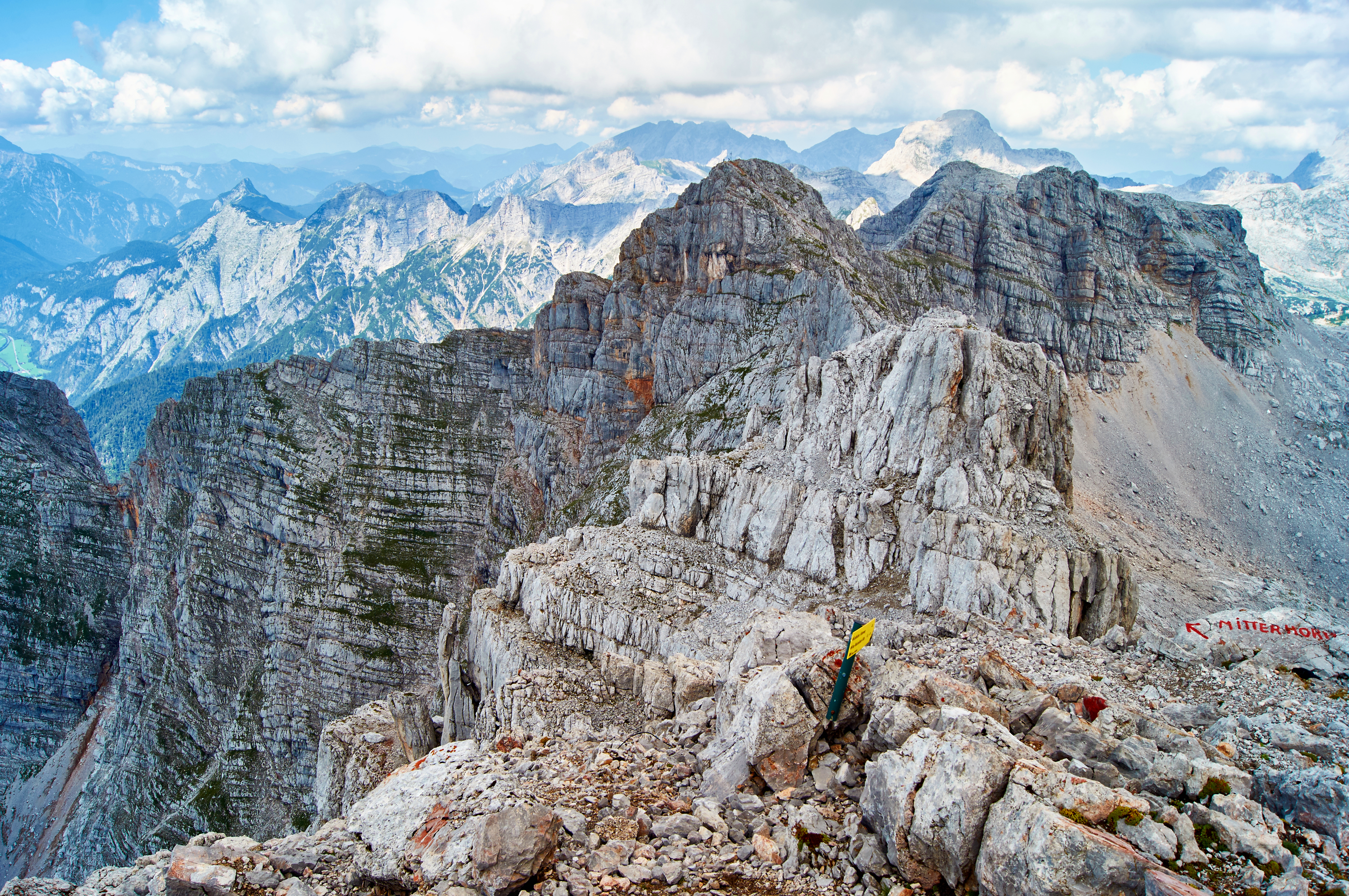 View from Breithorn in the mountain range Steinernes Meer to Mitterhorn. Saalfelden, Austria. This media shows the nature reserve in Salzburg with the ID NSG00012.